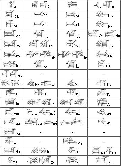 Hittite Cuneiform Table (Consonant + Vocal) Note--d and t, and b and p, are "unvoiced" vs voiced (with lips); g and k are also interchangable, (also: q interchangable with k) The s-(S s), (hard s (Ṣ ṣ)), and shibilant (Š š}, can also be interchangeable by the scribes.